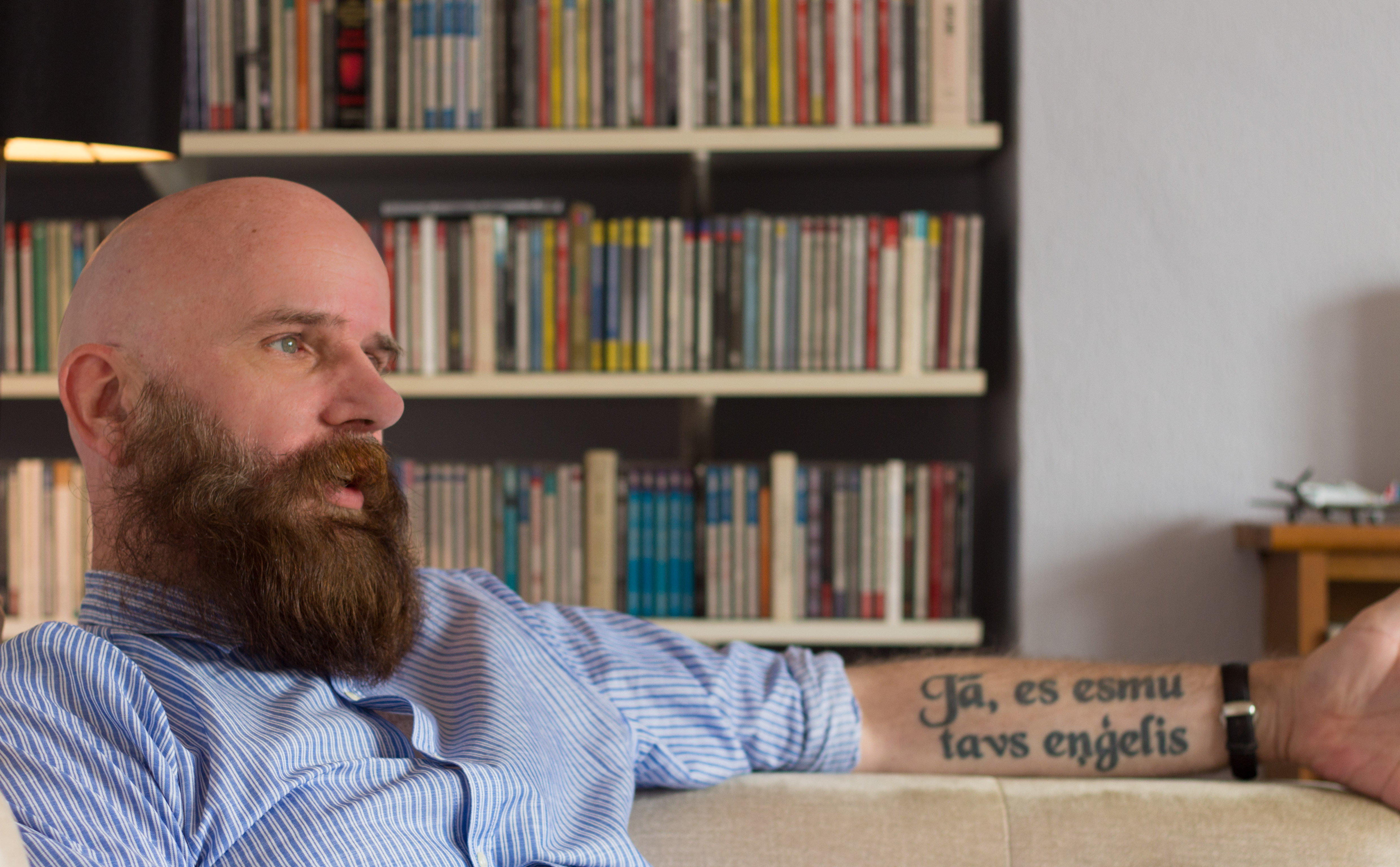 Biography of composer Gabriel Jackson. Taken at his home during September 2014, London, UK.